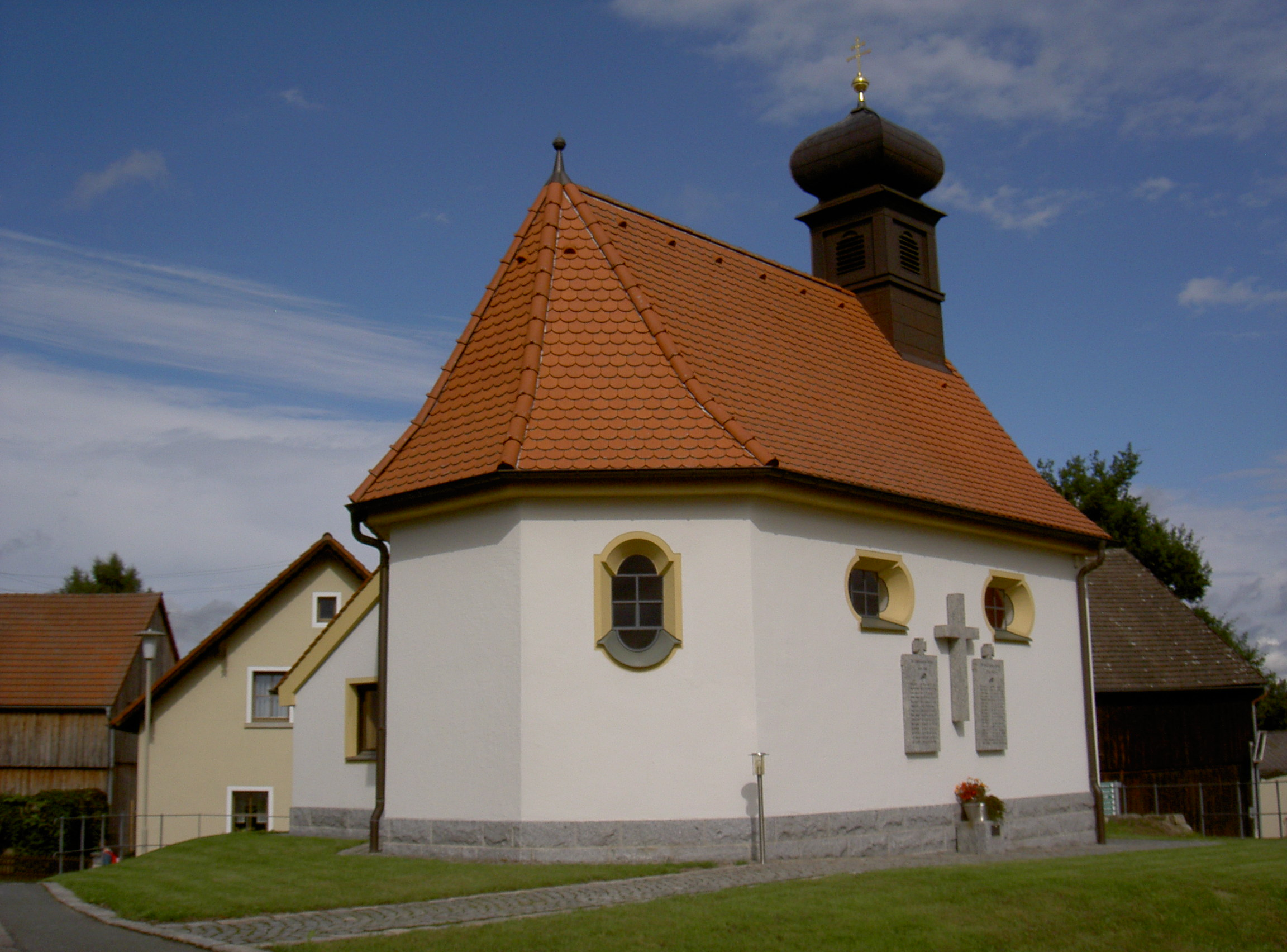 Dorfkapelle (Pfrentsch)